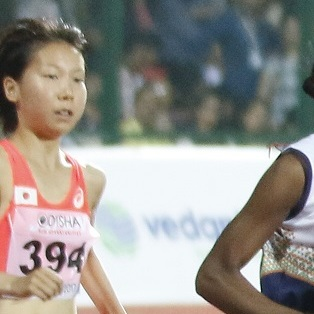 2017 Asian Athletics Championships at the Kalinga Stadium in Bhubaneswar, India. 1 Alia Mohammed 741 UNITED ARAB EMIRATES 2 Meenu . 252 INDIA 3 Daria Maslova 538 KYRGHIZSTAN 4 Mizuki Matsuda 408 JAPAN 5 L. Suriya 297 INDIA 6 Yuka Hori 394 JAPAN 7 Sanjivani Jadhav 267 INDIA 8 He Yinli 172 CHINA